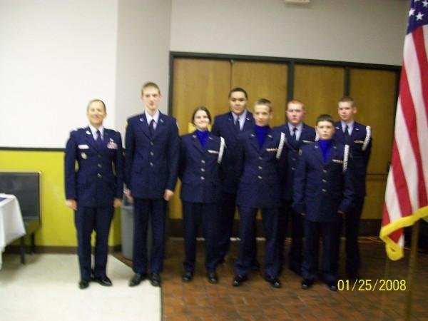 AFJROTC cadets and SASI from Midwest City High School in Oklahoma